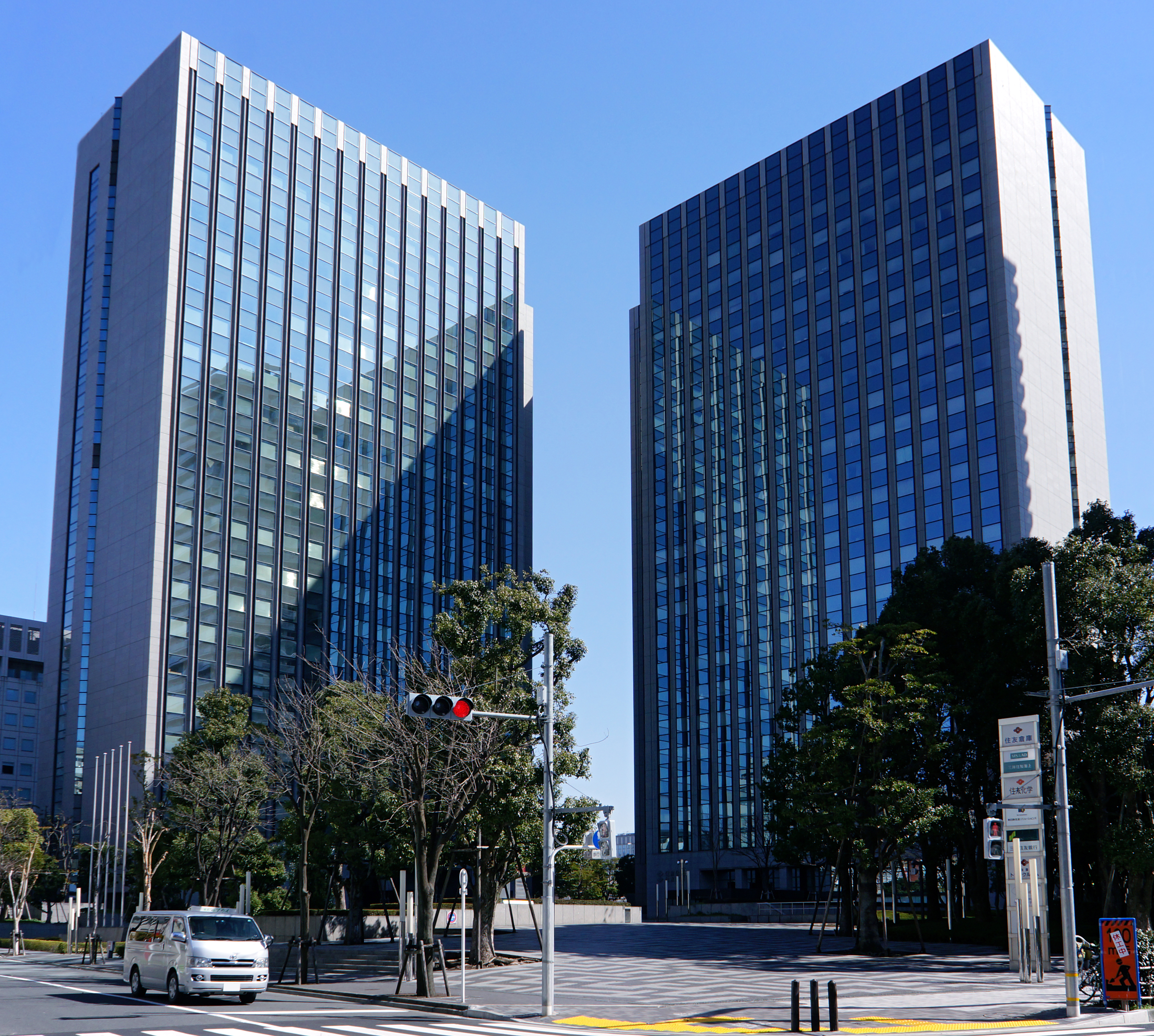 Tokyo Sumitomo Twin Building in Chuo-ku, Tokyo, Japan.